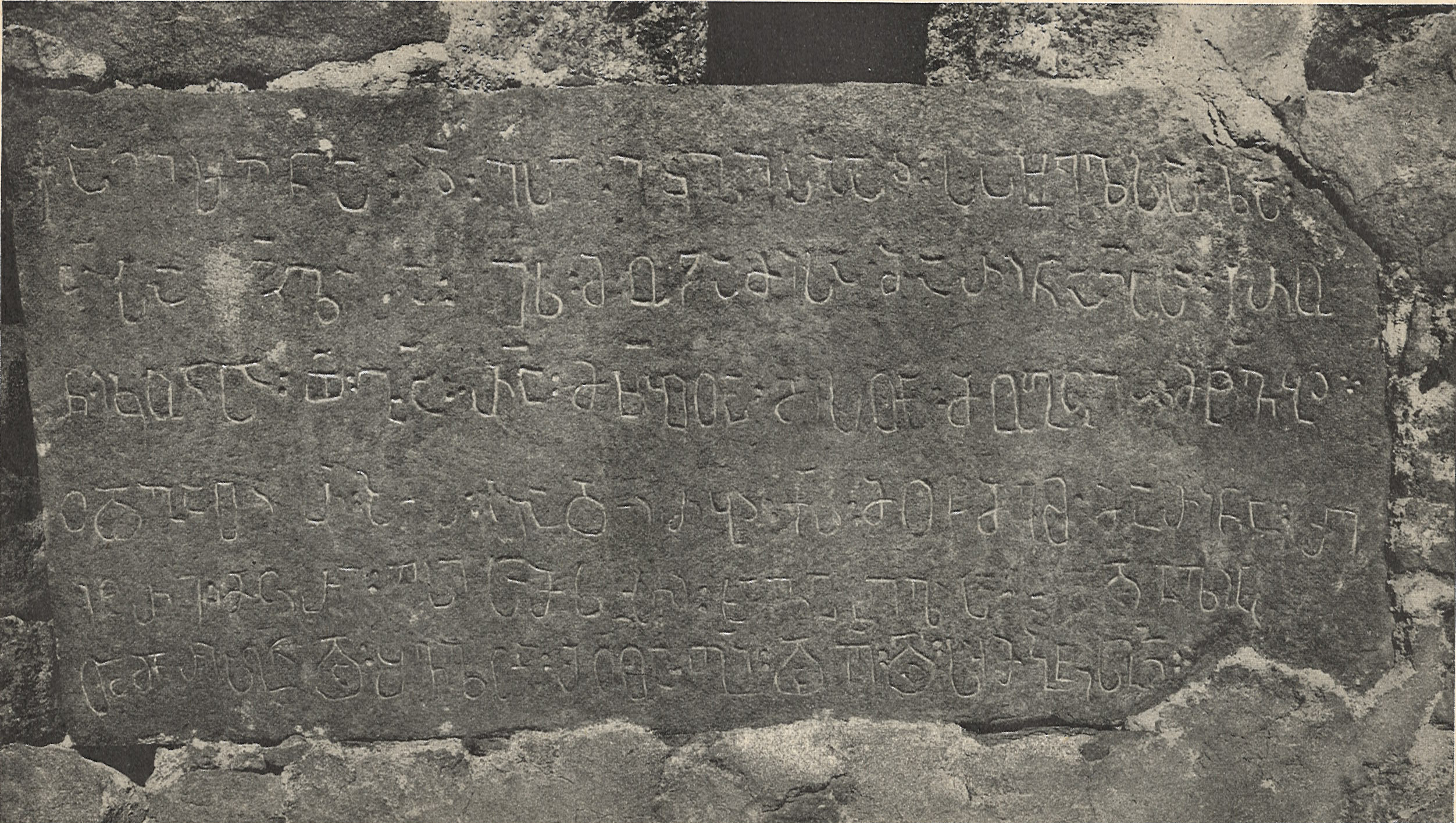 A stone with Georgian inscriptions from the Tandzoti mosque. From Nicholas Marr's dairy of his travels to Shavsheti and Klarjeti (1911).